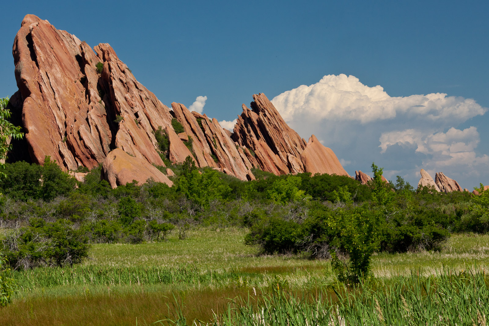 Roxborough SP